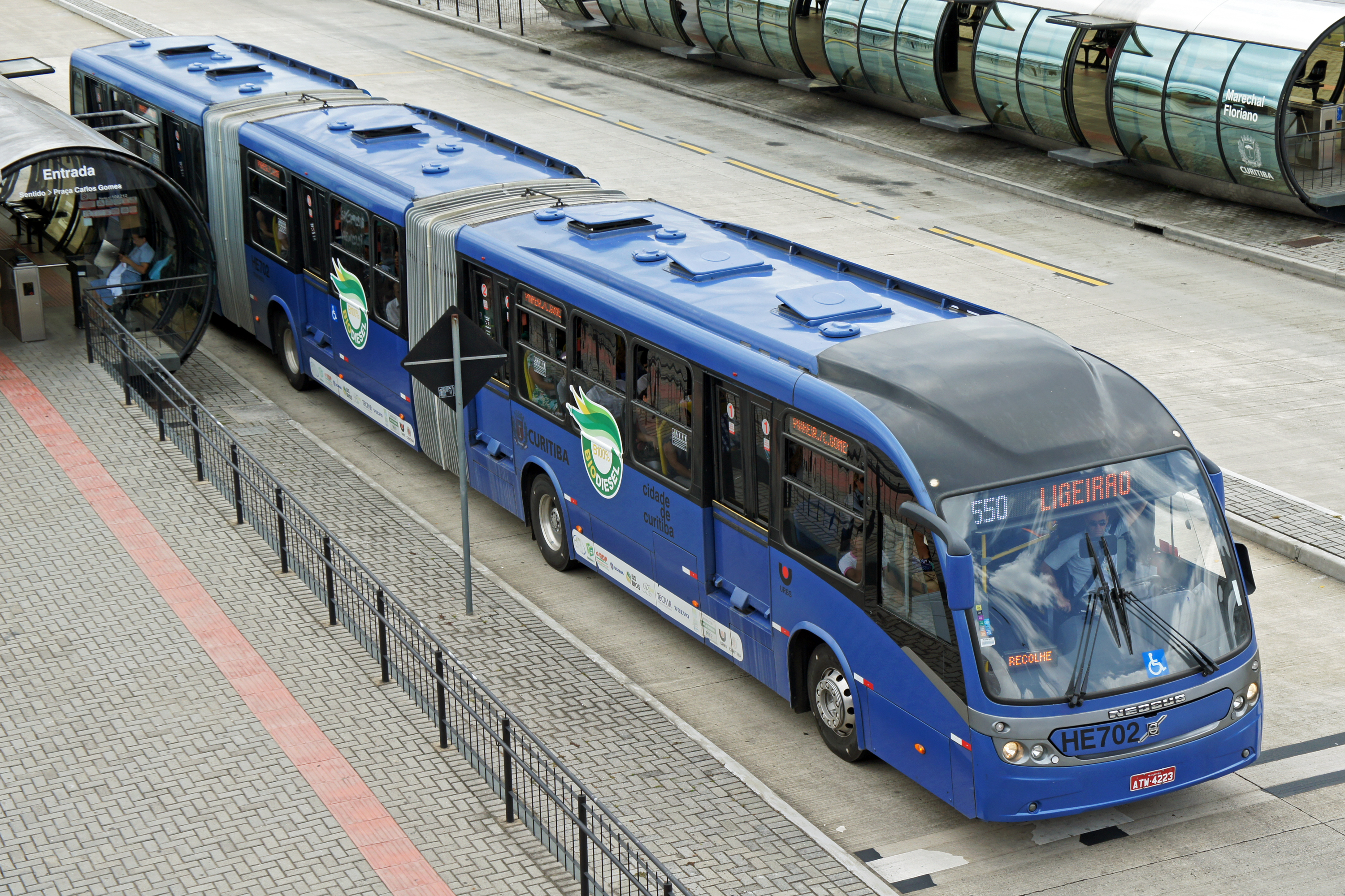 Marechal Floriano BRT station, Linha Verde (Green Line), Curitiba RIT, Brazil